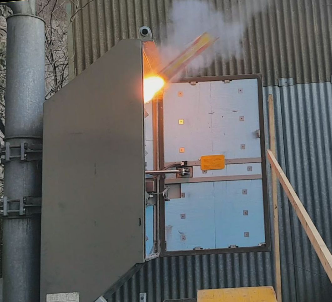 Lawienenwaechter (Avalanche guardian). Shooting an explosive charge.